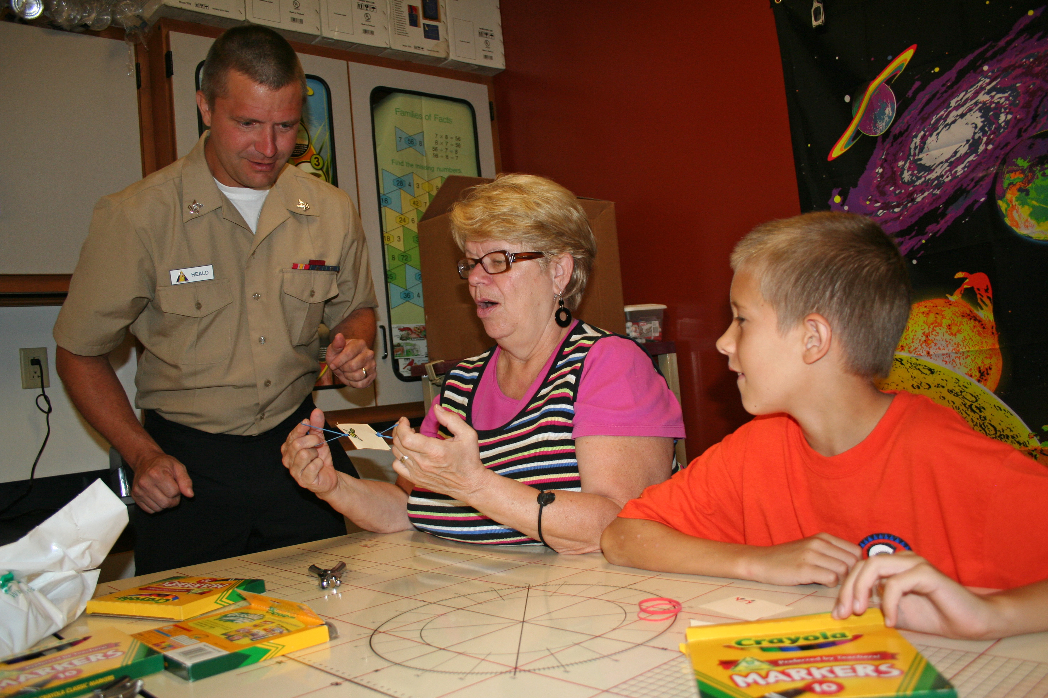 INDIANAPOLIS (Aug. 20, 2011) Information Systems Technician 2nd Class Evan Heald, assigned to Navy Recruiting District, Michigan, assists a young boy and his grandmother with a science project at the Camp Dellwood Girl Scout Camp Science Center during Indianapolis Navy Week 2011, one of 21 Navy weeks this year across the country. Sailors were on hand at Camp Dellwood to help promote STEM (Science, Technology, Engineering and Mathematics) education in schools. Navy weeks are designed to showcase the investment Americans have made in their Navy and increase awareness in cities that do not have a significant Navy presence. (U.S. Navy photo by Chief Mass Communication Specialist Steve Johnson/Released)